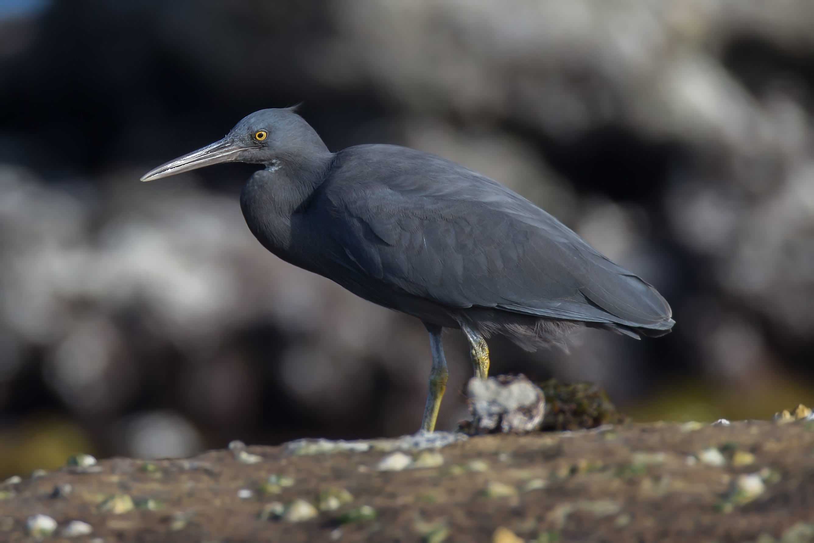 Pacific Reef Heron (Egretta sacra) dark morph, Doughboy Head, New South Wales, Australia